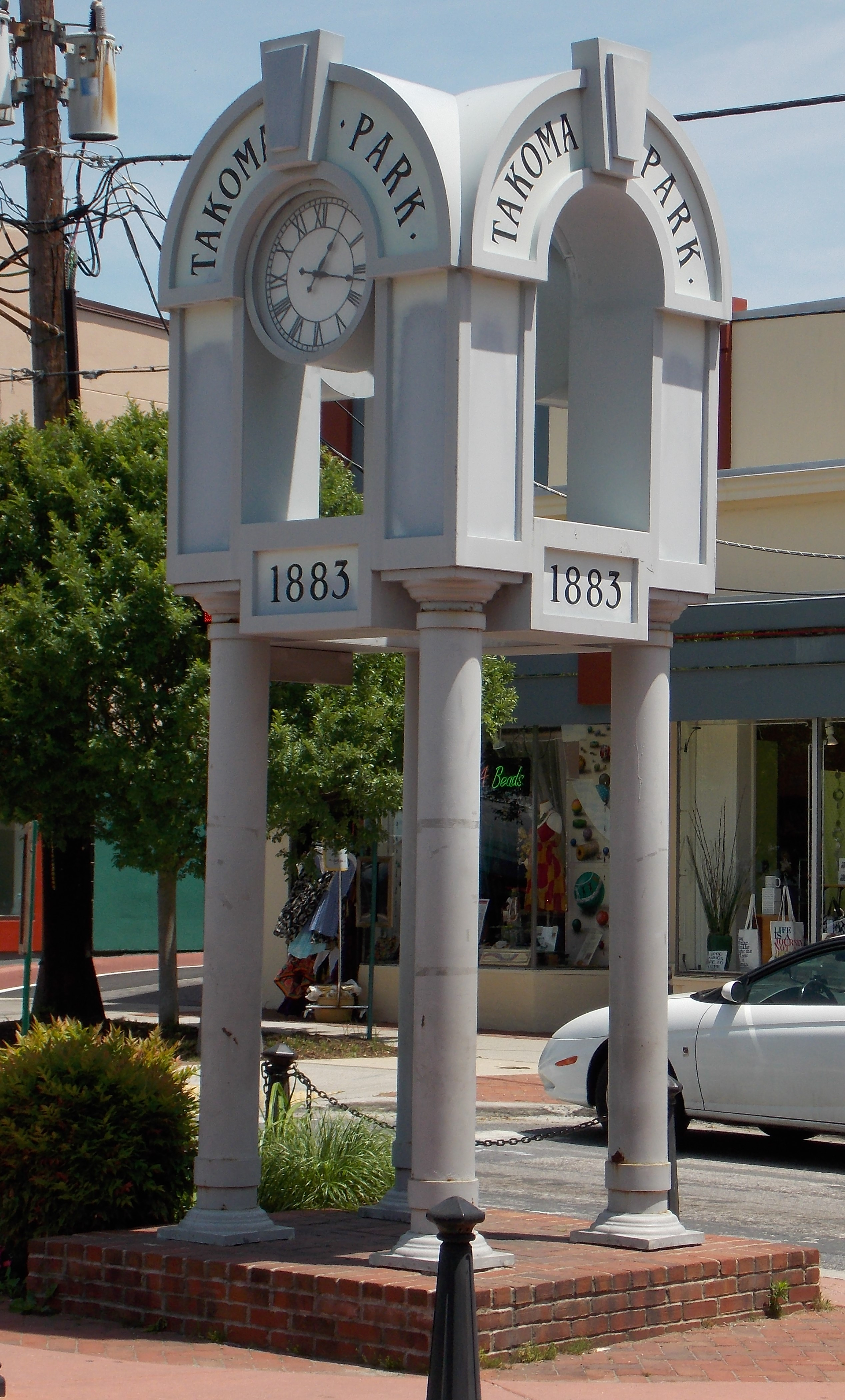 The clock in downtown Takoma Park, Maryland